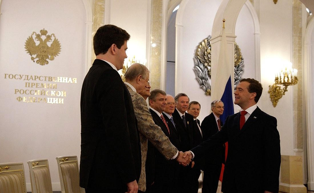 Dmitry Medvedev and State Prize of the Russian Federation laureats for 2009